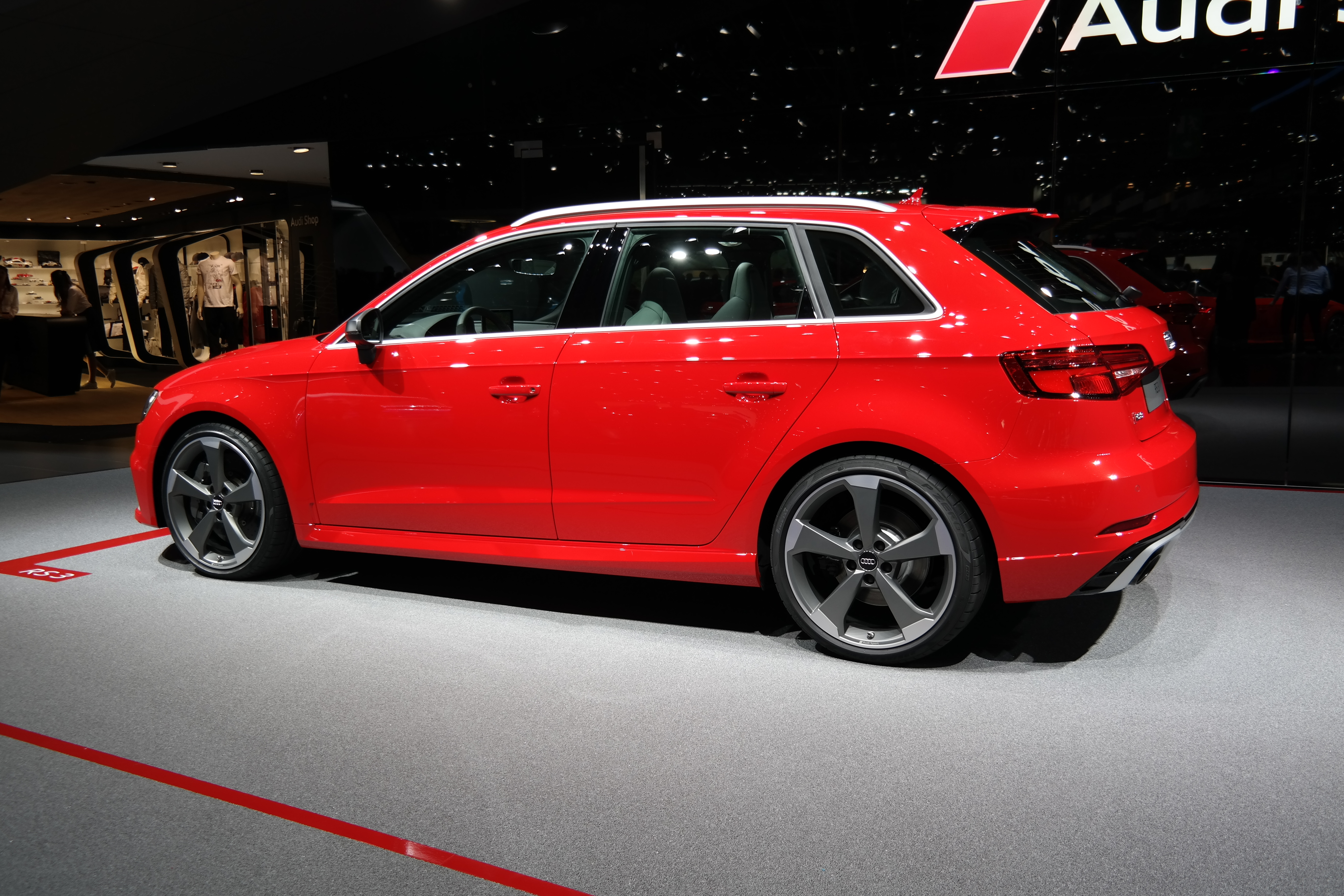 Geneva Motor Show 2017 (photo taken on the first press day)